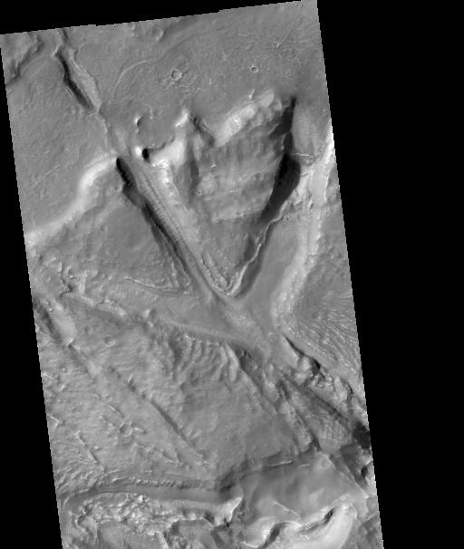 Galaxia Chaos as seen by hirise. Location is 33.5 north and 145.5 E.